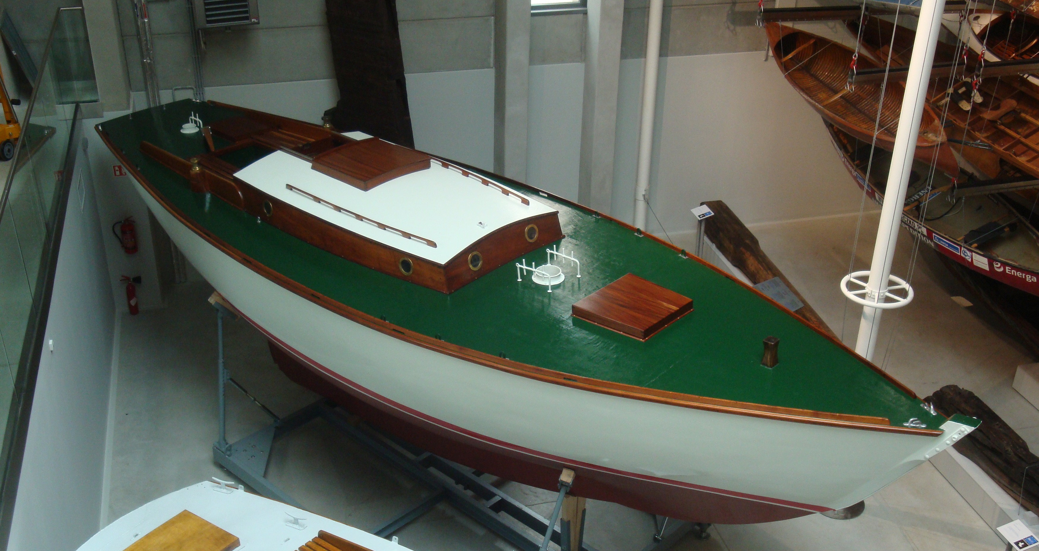 Sailing yacht Opty - boat of Leonid Teliga, the first Pole who single-handedly circumnavigated the globe. Presently on exhibition in Shipwreck Conservation Centre in Tczew (division of National Maritime Museum in Gdańsk, Poland)